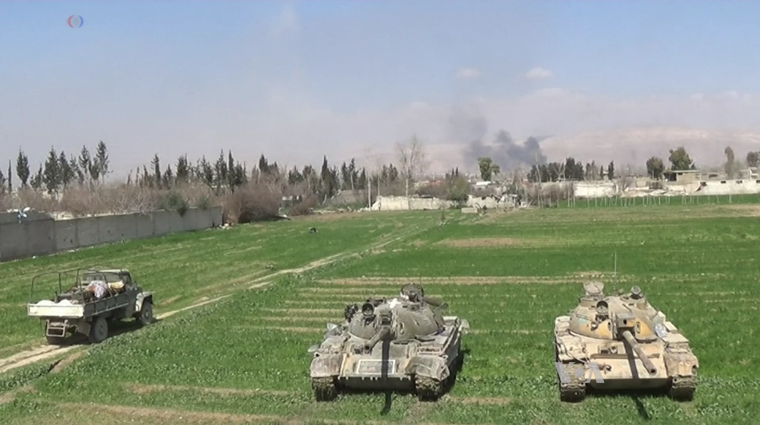 Syrian Army tanks on a field during Operation Damascus Steel, March 2018.